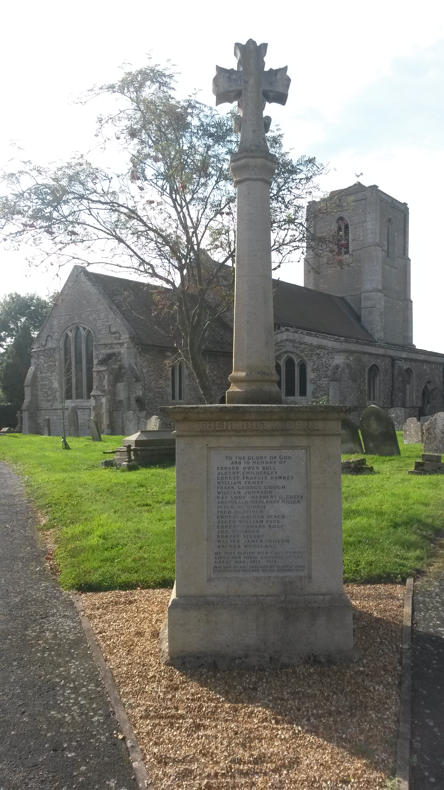 War memorial at Great Stukeley, Huntingdonshire, with St Bartholomew's parish church in the background